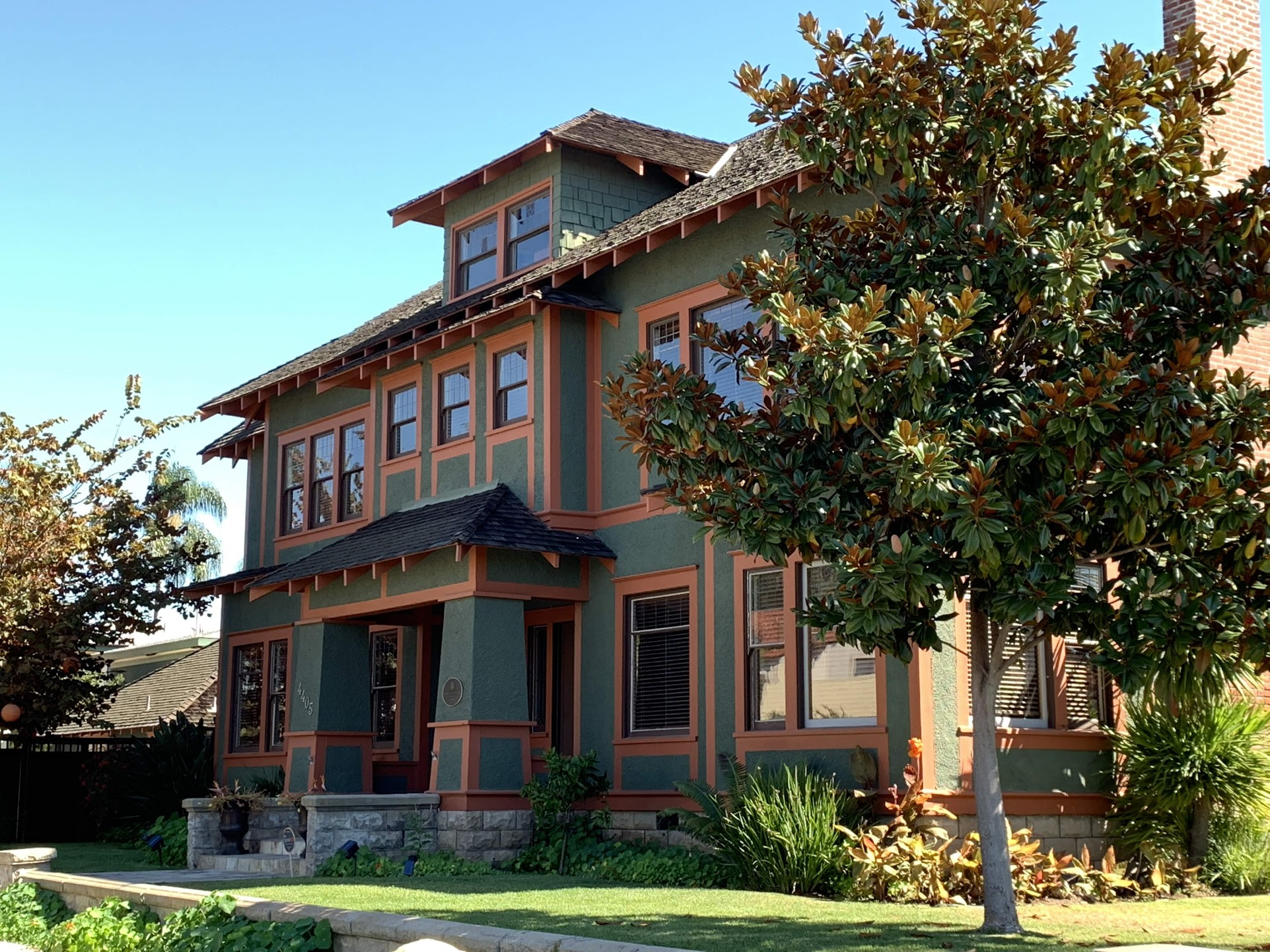 Architecture in Mission Hills, San Diego